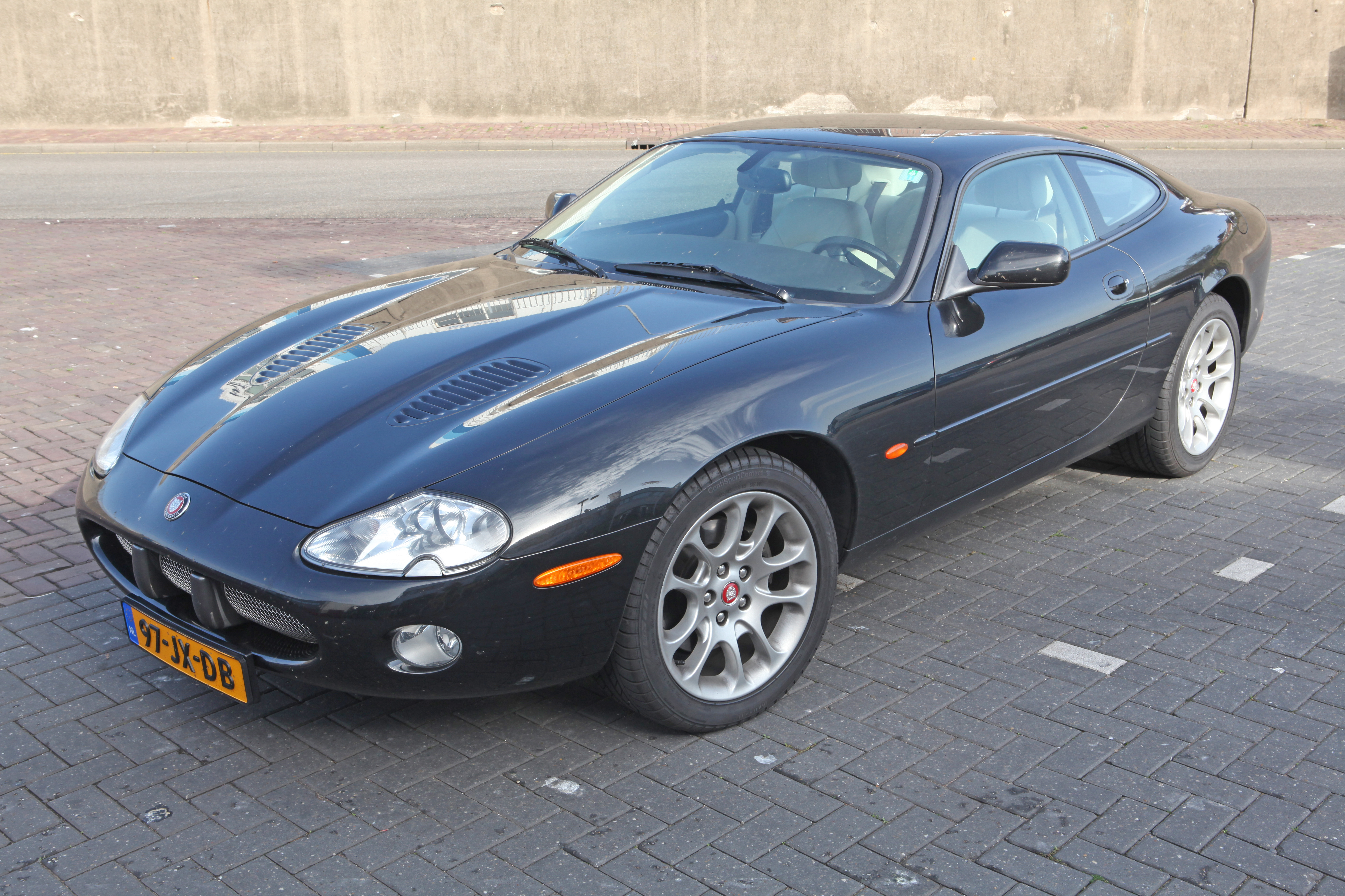 2002 Jaguar XKR Coupe